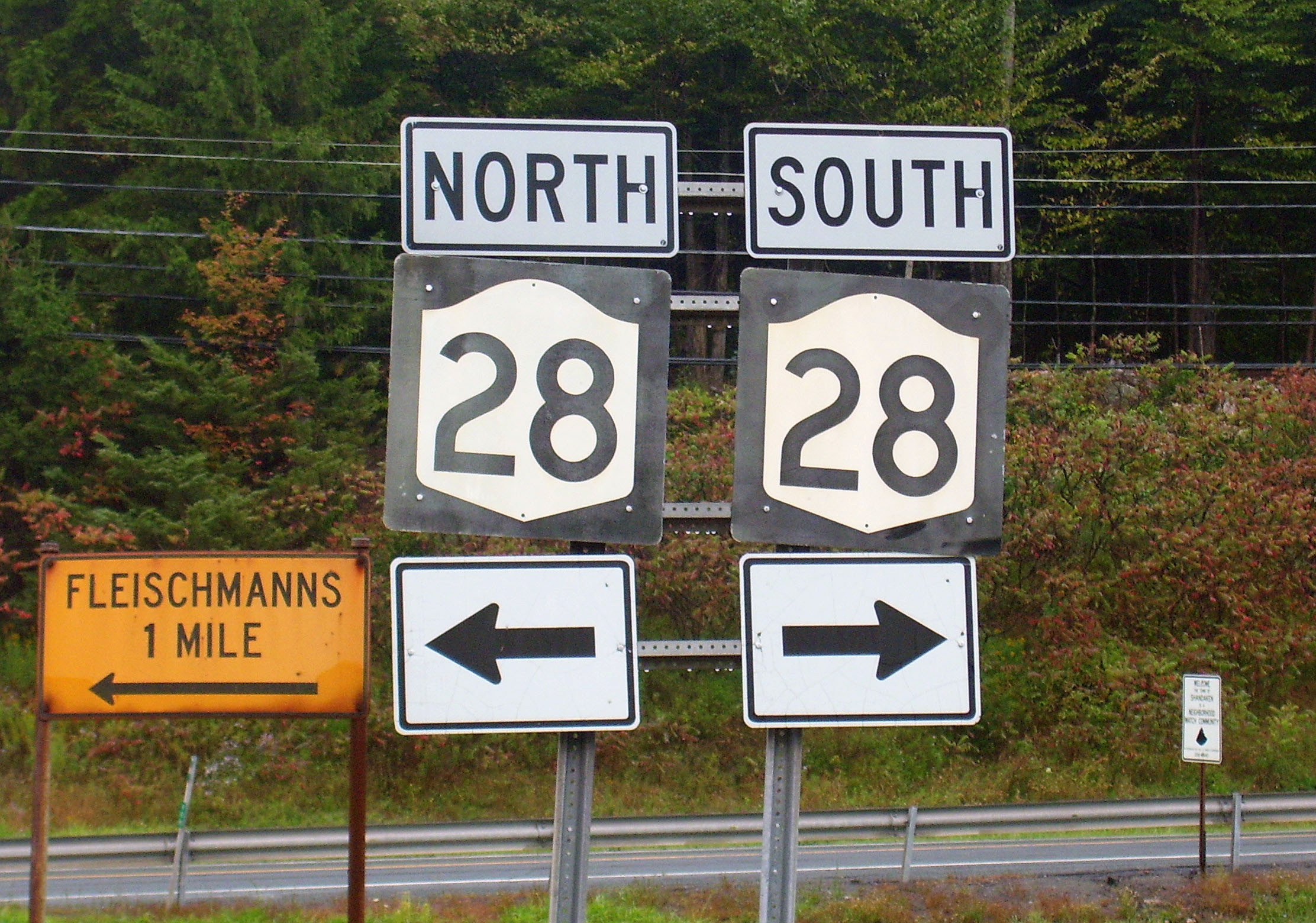 Signs along Ulster County Route 49A at junction with NY 28 in Highmount, NY, USA. Located just east of Delaware County line, Delaware-Hudson watershed divide and Catskill Park Blue Line, these signs are the first along the highway after its Kingston terminus to indicate its direction as north-south rather than east-west.